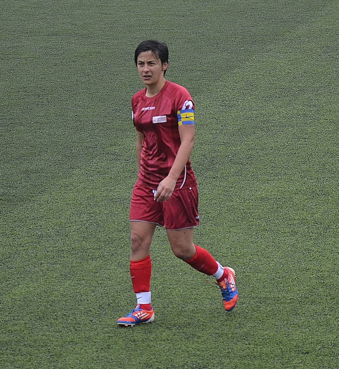 Sevinç Çorlu for Ataşehir Belediyespor in the 2013-14 season